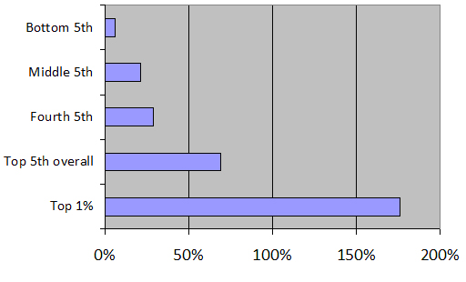 A chart showing the inflation-adjusted percentage increase in mean after-tax household income in the United States between 1979 and 2005.